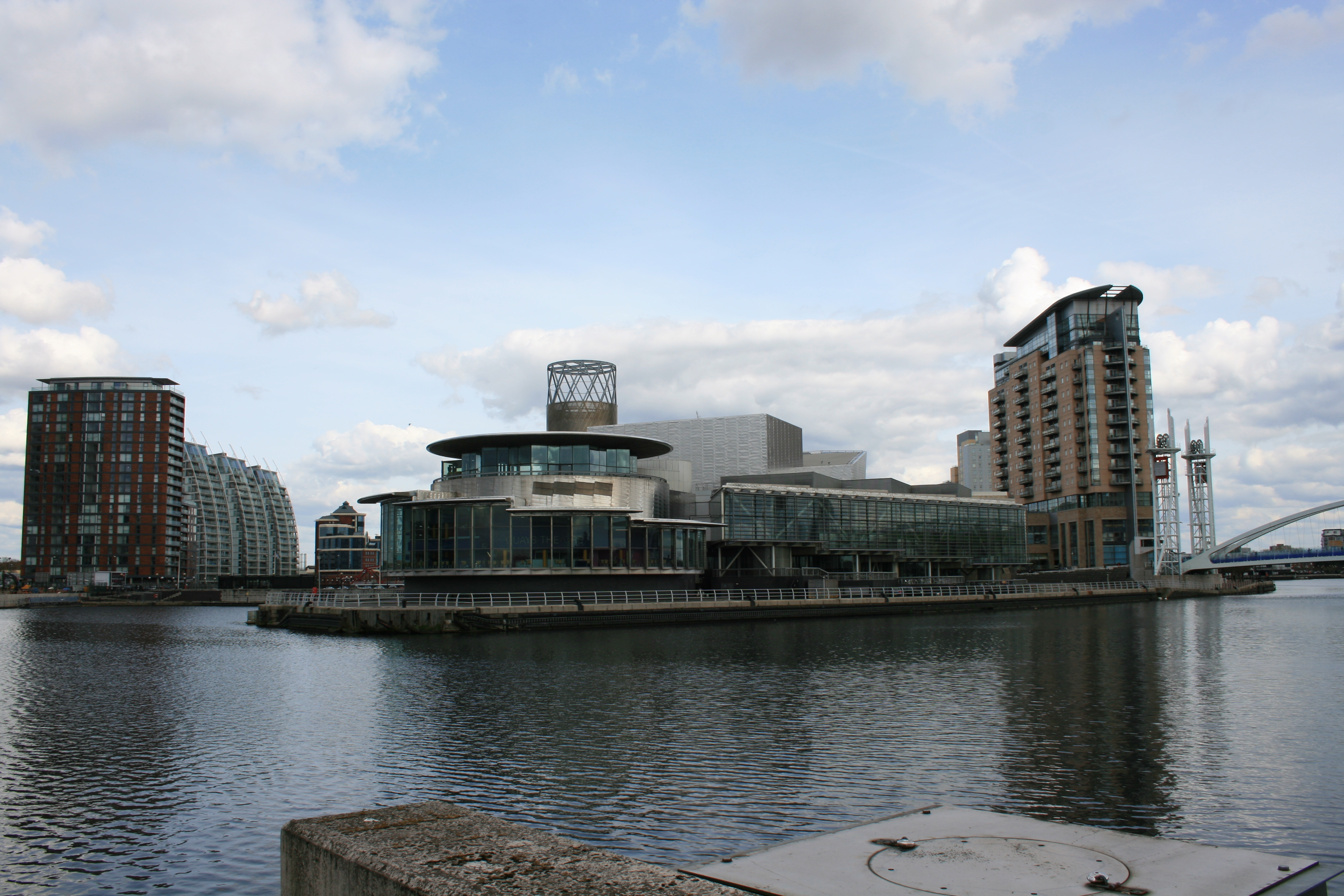 The Lowry theatre as seen from across the Manchester Ship Canal